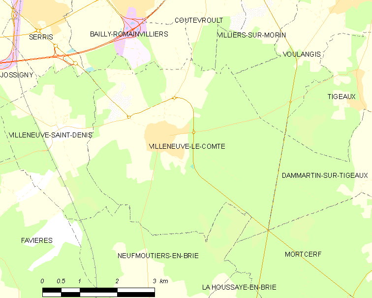 Map of French municipality Villeneuve-le-Comte